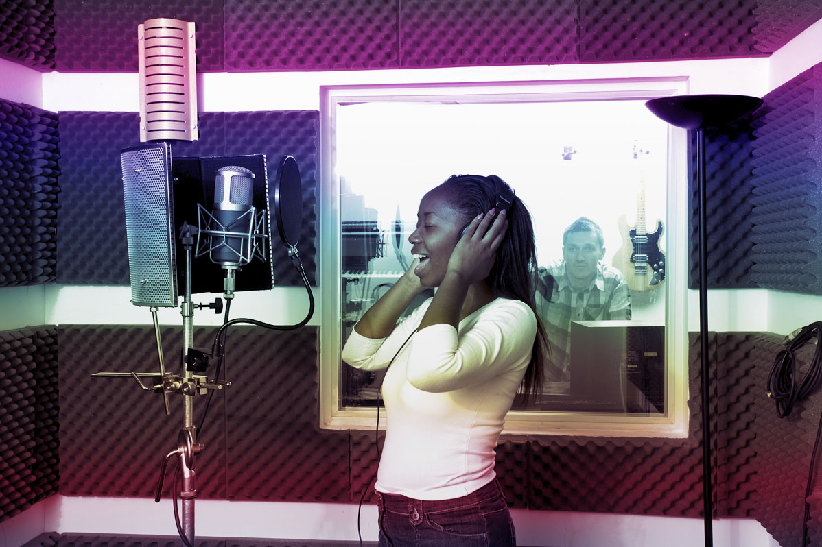 Session Room